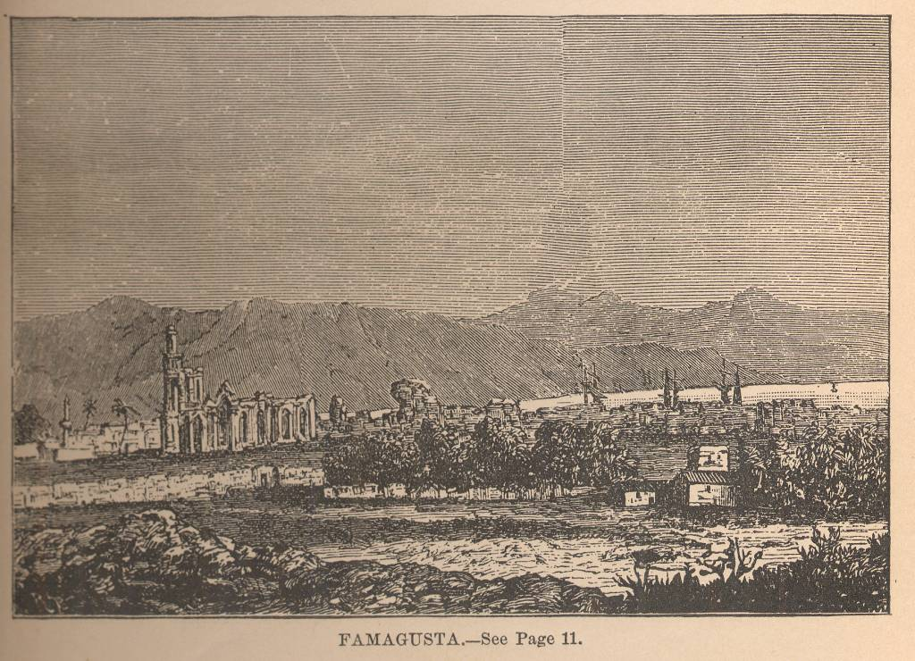 The ruins of Famagusta.